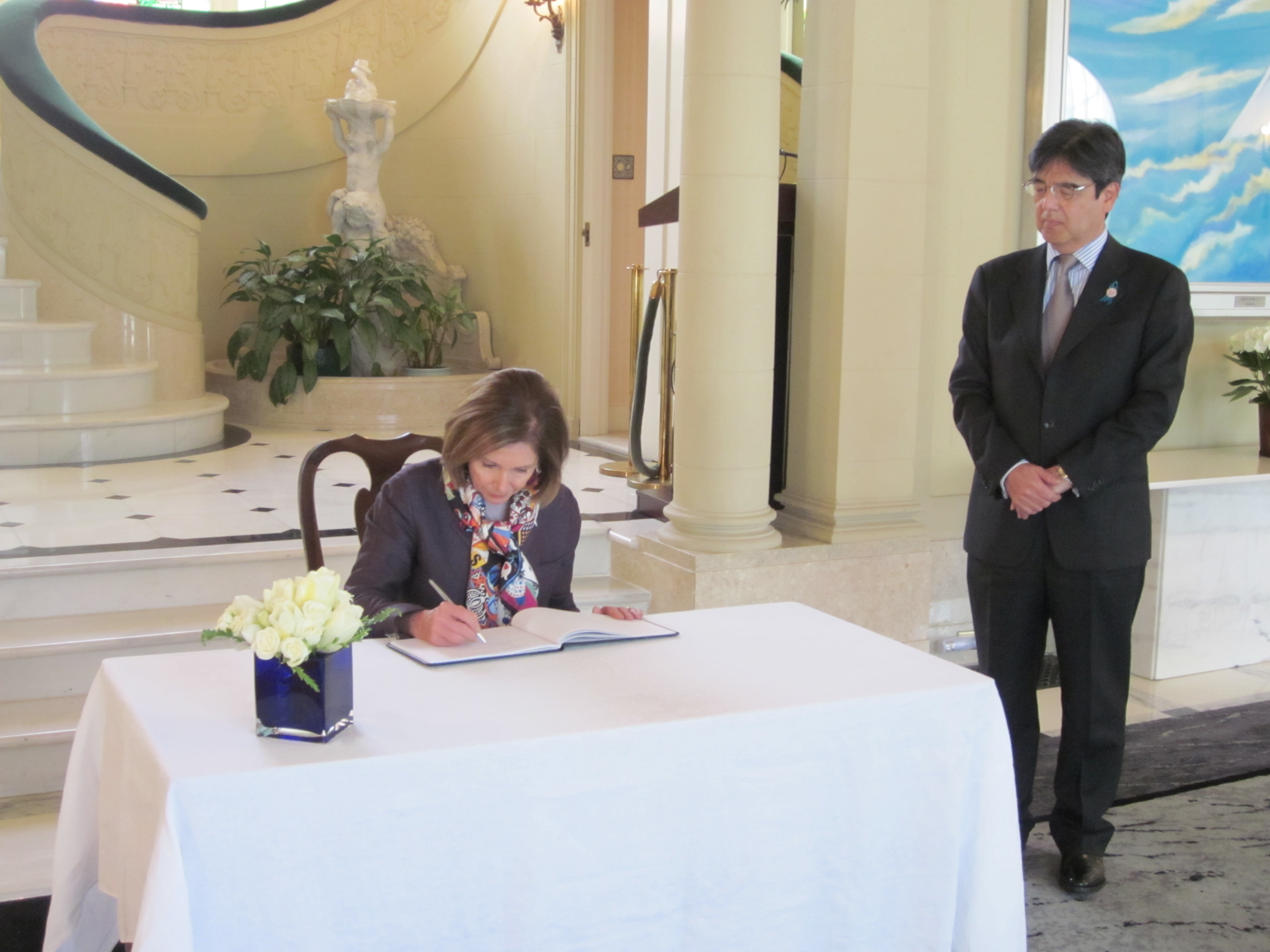 Leader Pelosi visited the consulate of Japan in San Francisco on March 29th to sign the book of condolences.